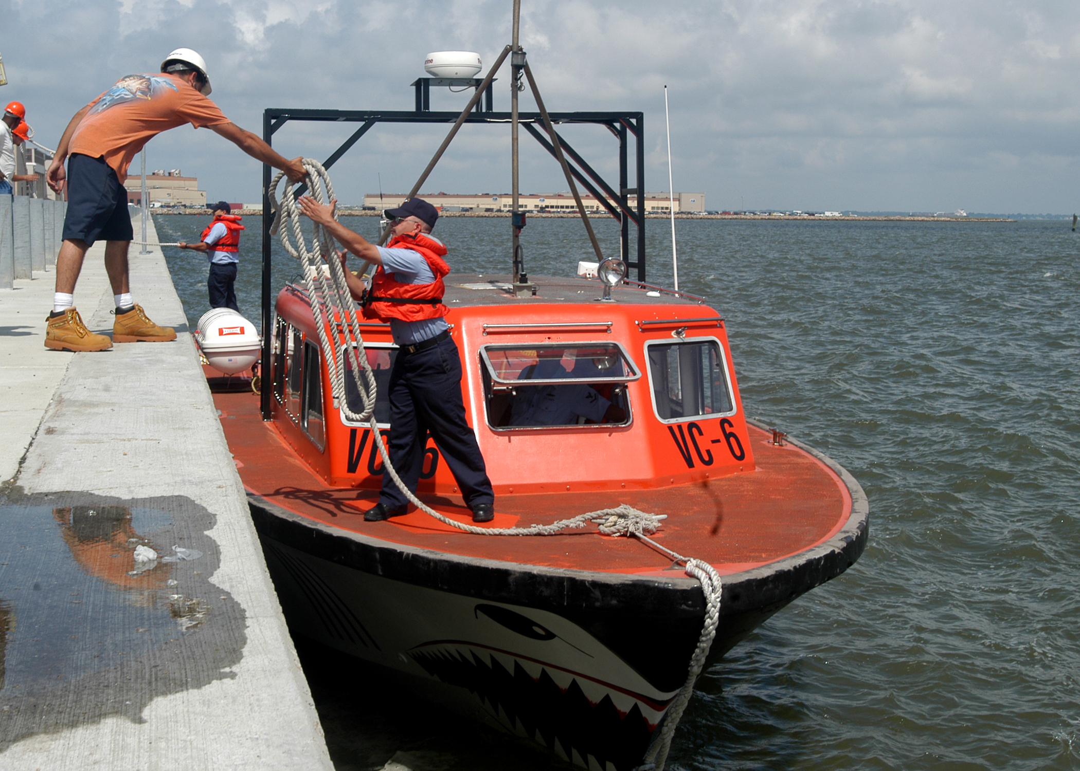 Norfolk, Va. (Aug. 1, 2005) – Boatswain’s Mate 1st Class Dennis Smith, assigned to Fleet Composite Squadron Six (VC-6) receives line from a Public Works Center worker as the latest refurbishment of QST-35 Seaborne Powered Target (SEPTAR) prepares for operational testing in Willoughby Bay. The squadron provides training and support to maximize fleet readiness and mission accomplishment with vital, real time airborne reconnaissance capabilities and to provide realistic aerial and seaborne threat simulations. U.S. Navy photo by Photographer’s Mate 1st Class Gregory Roberts (RELEASED)